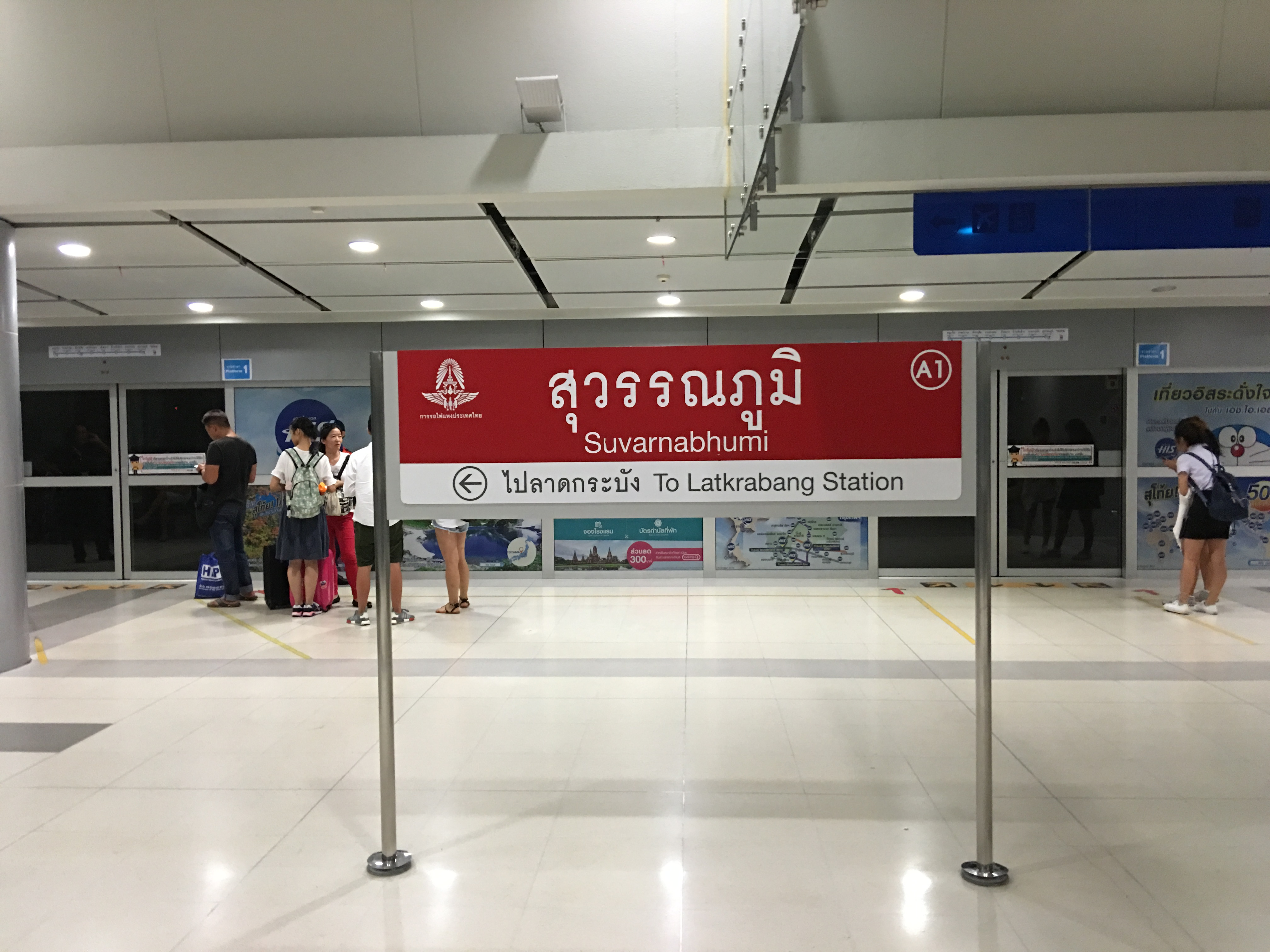 Suvarnabhumi ARL Station